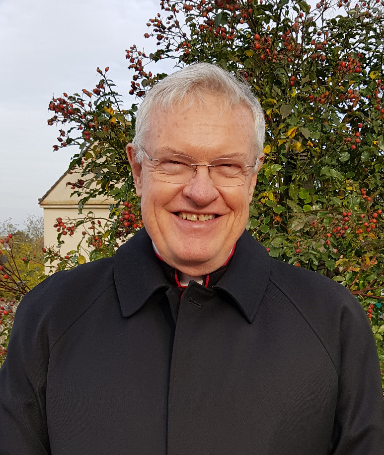 Photograph of the Apostolic Nuncio Archbishop Charles Balvo during his visit to Prague's parish of St. Agnes of Bohemia on 17 November 2019.